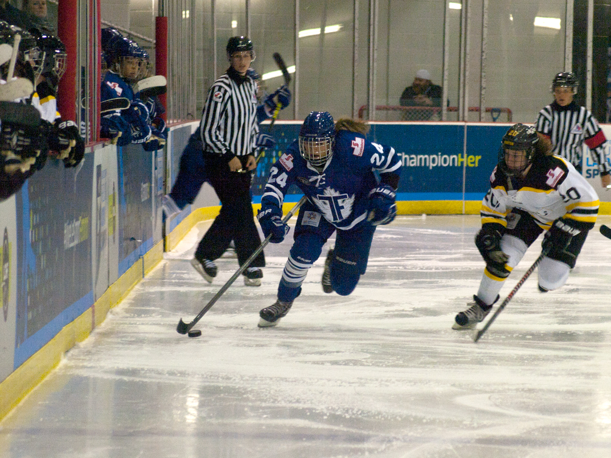 Toronto Furies forward Natalie Spooner and Boston Blades forward Ashley Cottrell chase the puck.